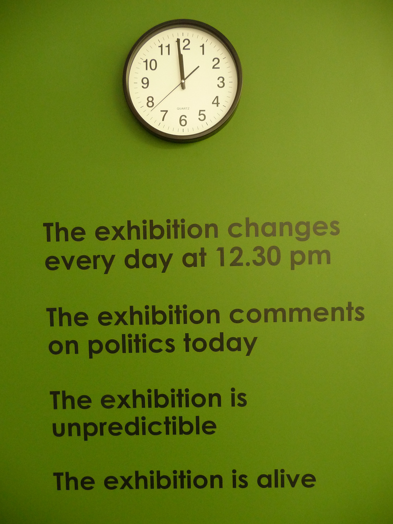 Deadline